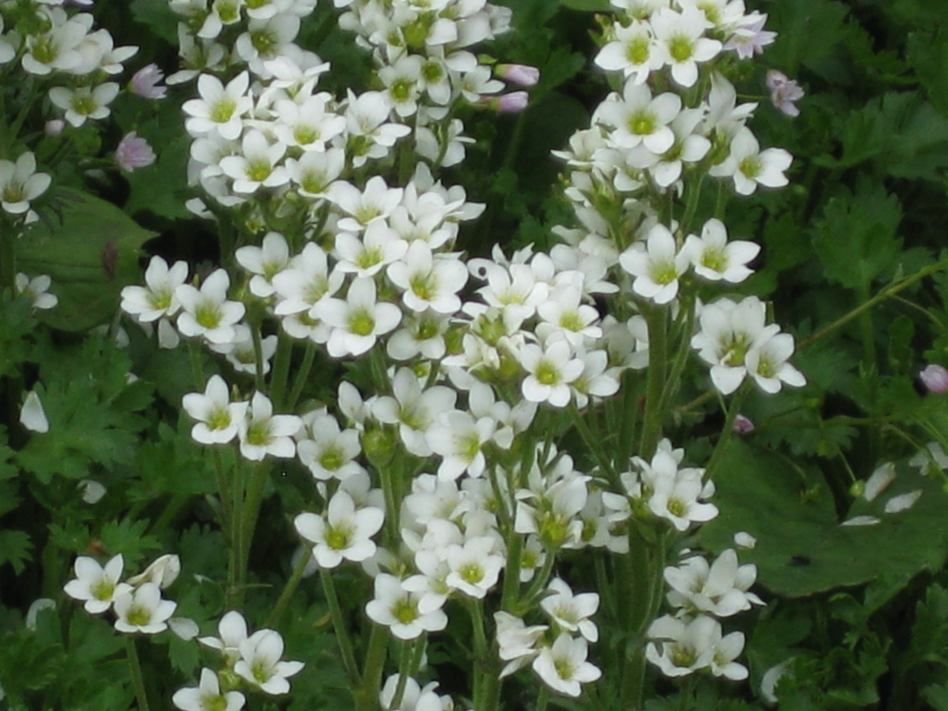 Saxifraga aquatica in the Jardin Botanique Alpin du Lautaret